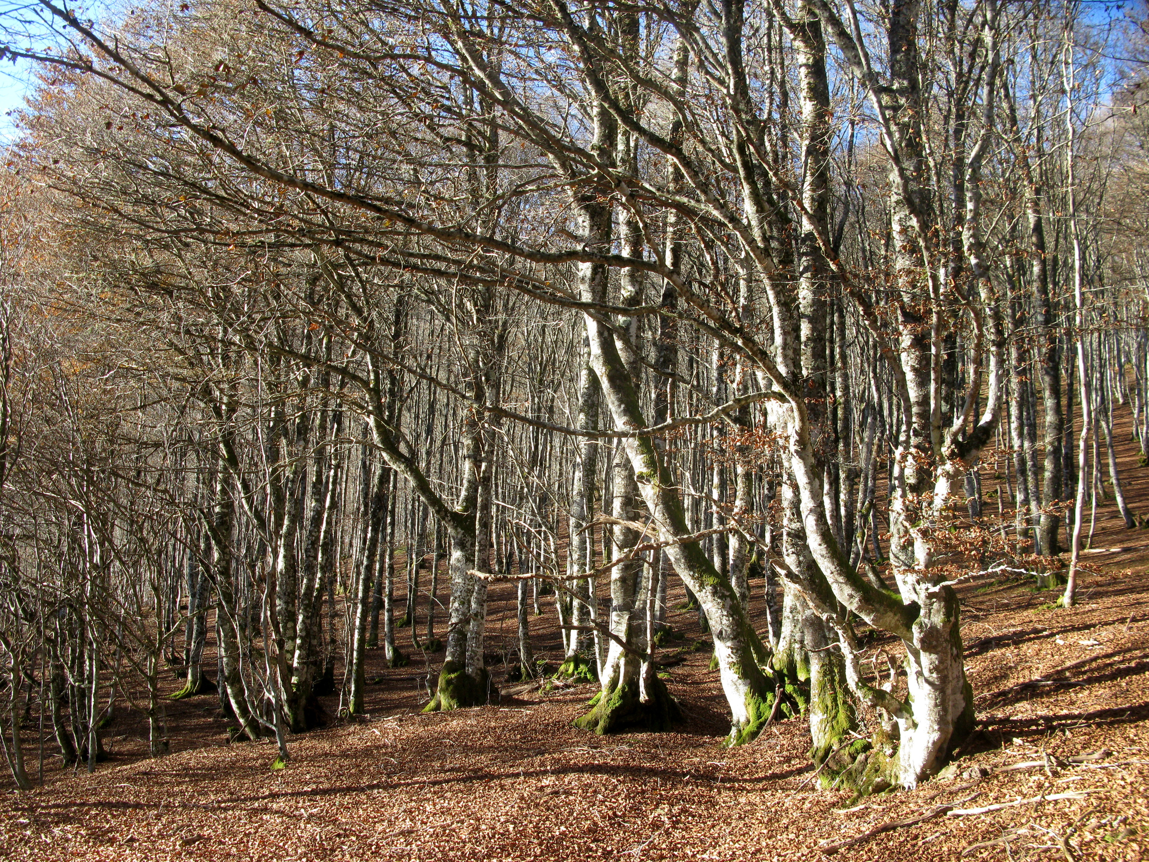 European beech